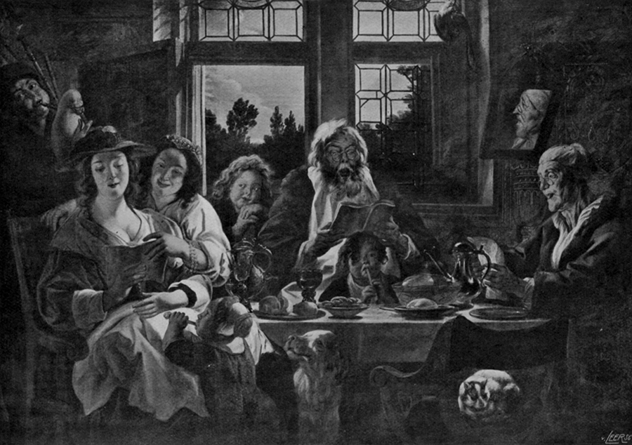 'As the Old Cock Crows', by Jacob Jordaens, ca. 1658. The painting was destroyed or disappeared in Berlin in May 1945, in the Friedrichshain flak tower fire. - Oil on canvas - Dimensions: 163 x 235 cm